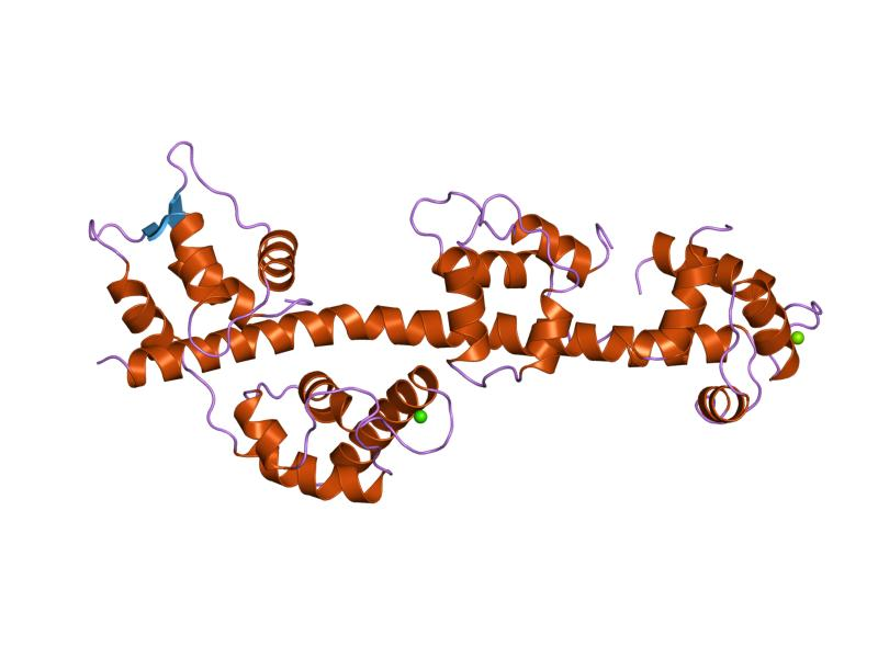 Cartoon representation of the molecular structure of protein registered with 1wdc code.